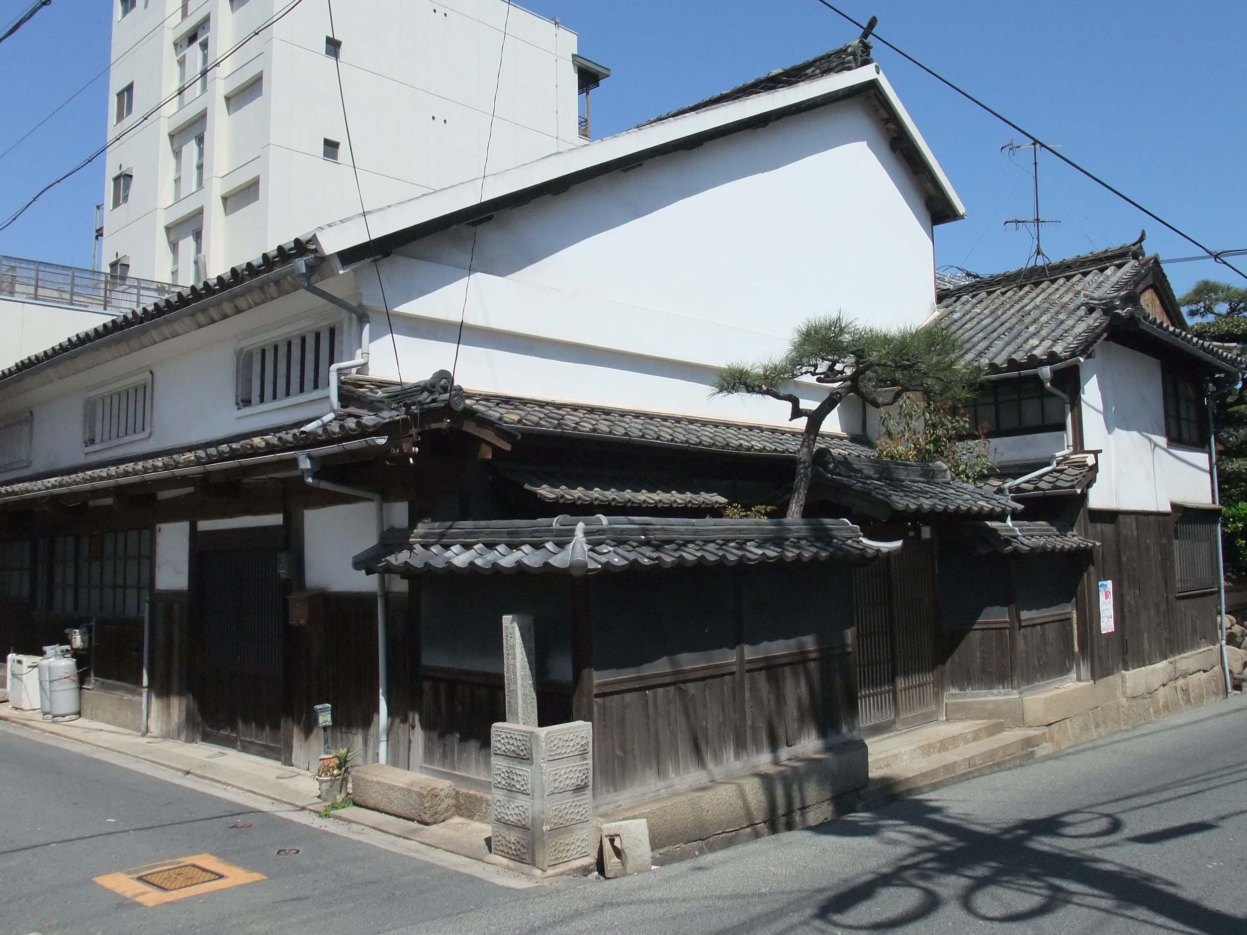 Inn of Ryoma Sakamoto stay